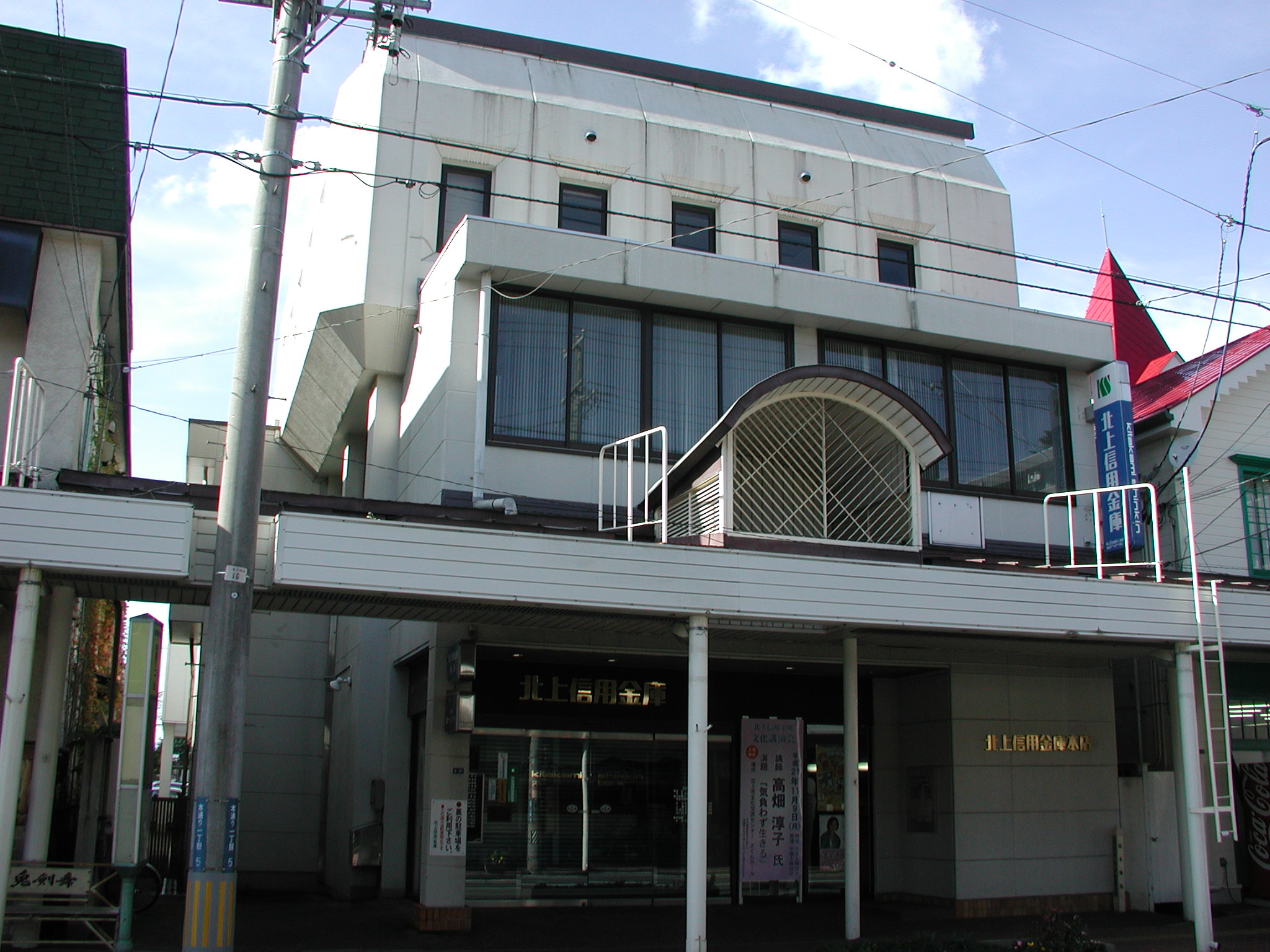 The Kitakami Shinkin Bank Head Shops